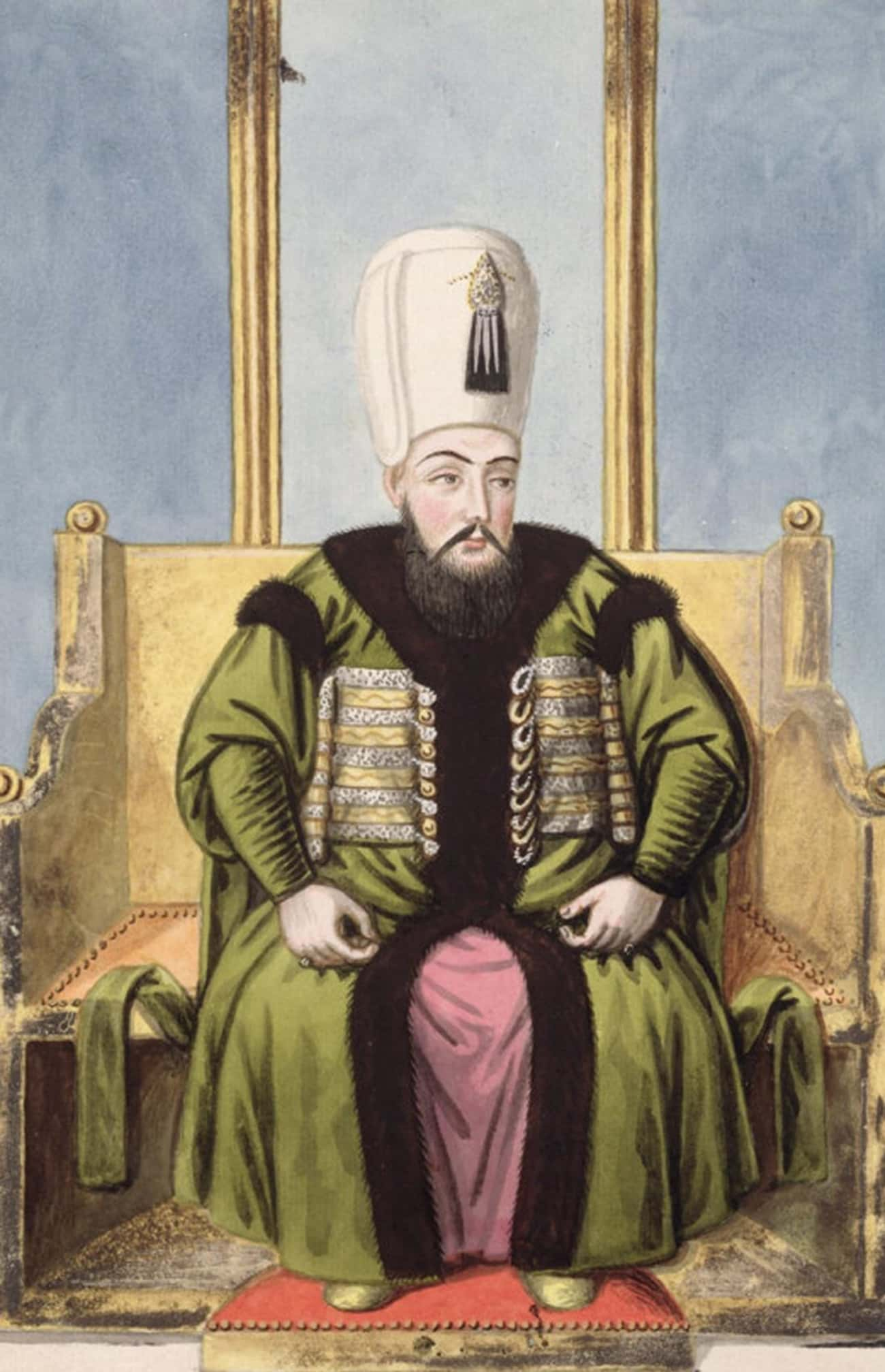 Portrait of Ahmed I, Sultan of the Ottoman Empire (1603-1617). The portrait has been printed using the Giclée process.